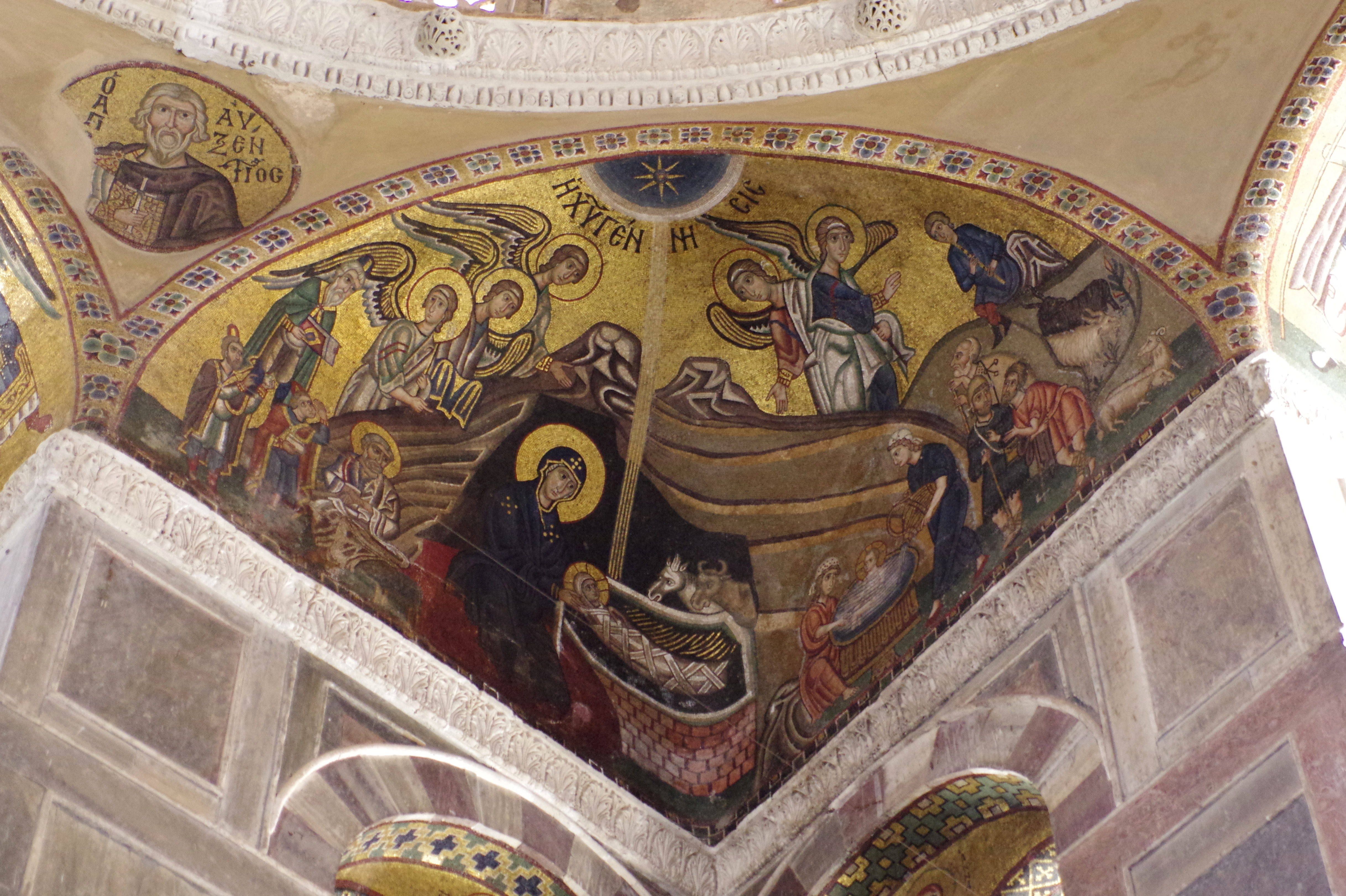 Greece, Monastery of Hosios Loukas